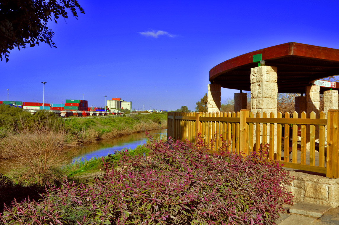 Arbor in Ashdod.